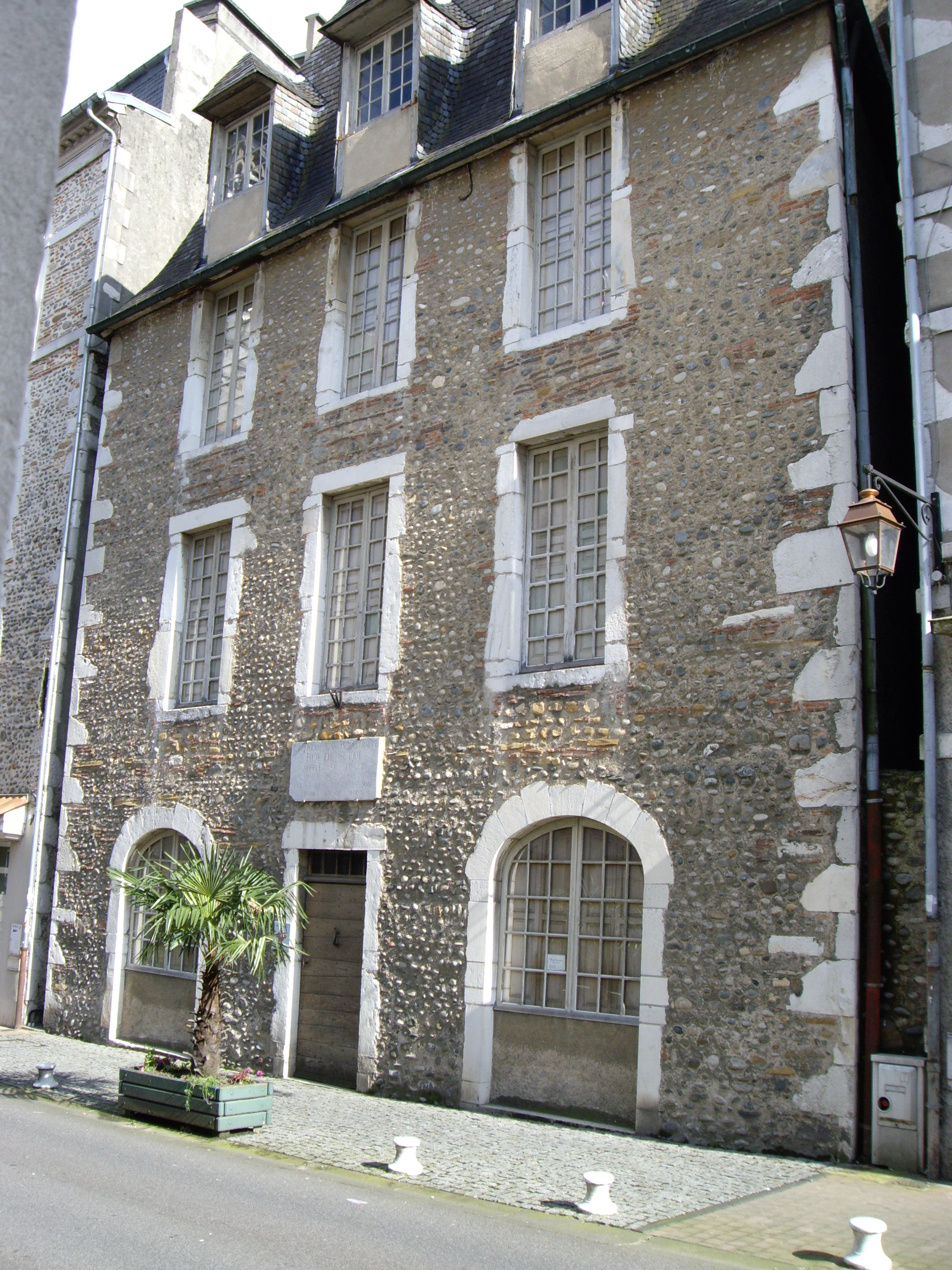 Bernadotte Museum, birthplace of this simple soldier crowned King of Sweden and Norway, Pau, Pyrénées-Atlantiques, France